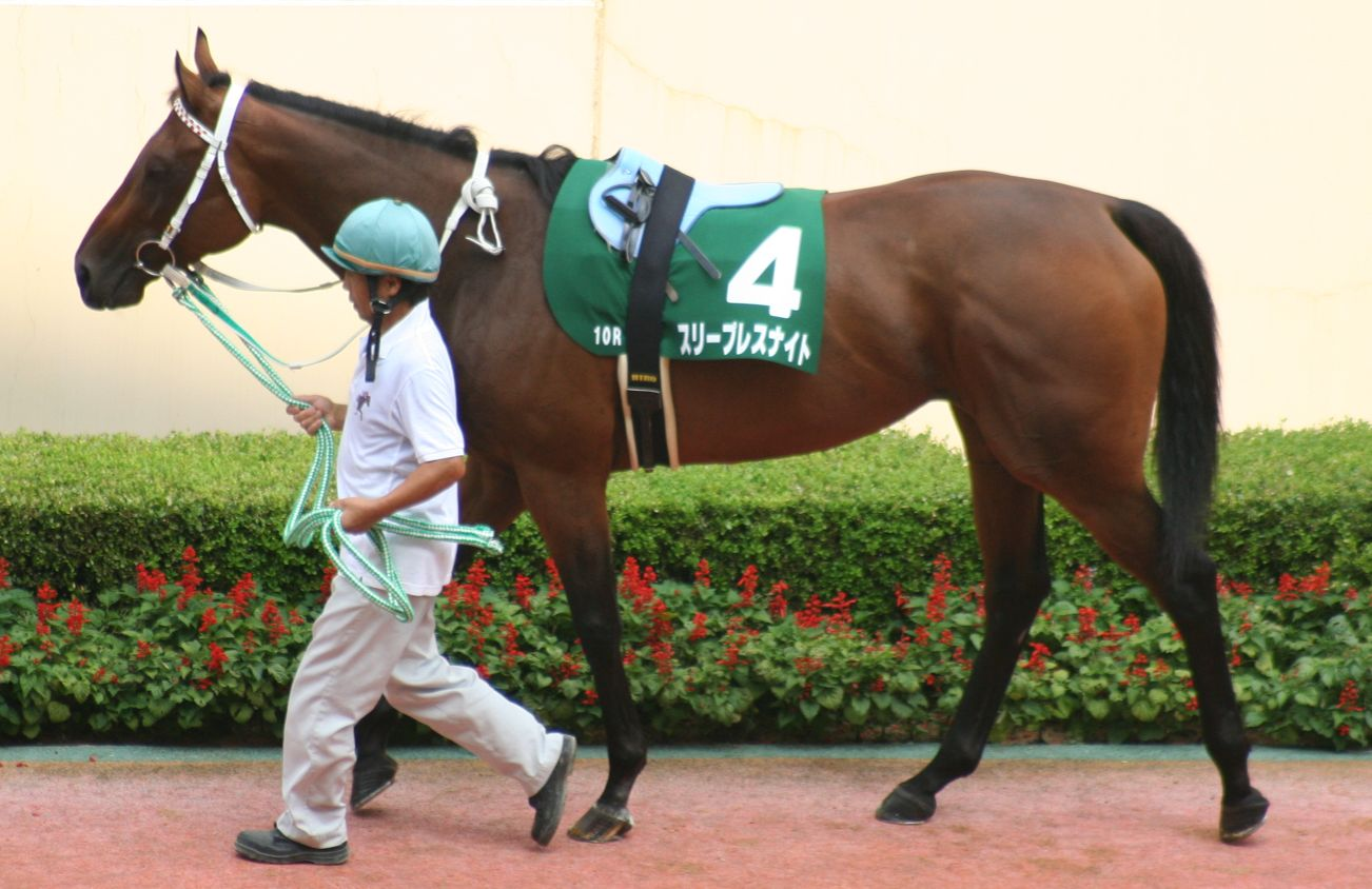 Sleepless Night(Horse, Kokura Racecourse)